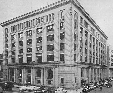 Industrial Bank of Japan Head Office in 1950s (Nihon Kōgyō Ginkō)